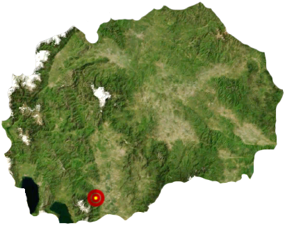 Location of Bitola city in the Republic of Macedonia